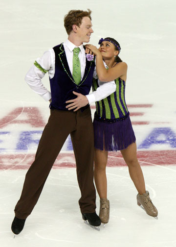 Jane Summersett & Todd Gilles during their original dance at the 2008 Skate America. They placed 6th in this segment of the competition and 7th overall.